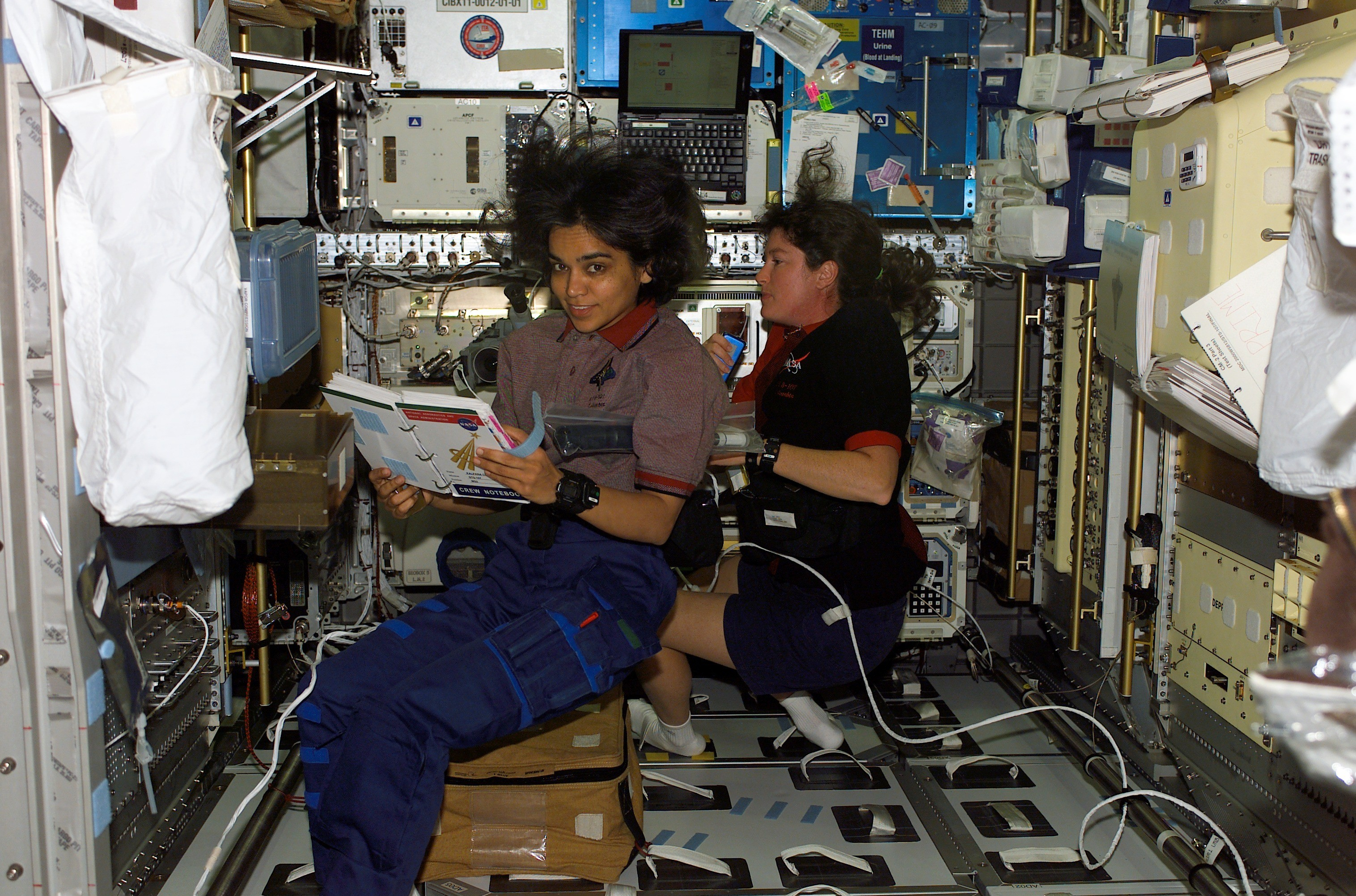 Astronaut Kalpana Chawla (foreground) and Laurel B. Clark, STS-107 mission specialists, work in the SPACEHAB Research Double Module aboard the Space Shuttle Columbia.